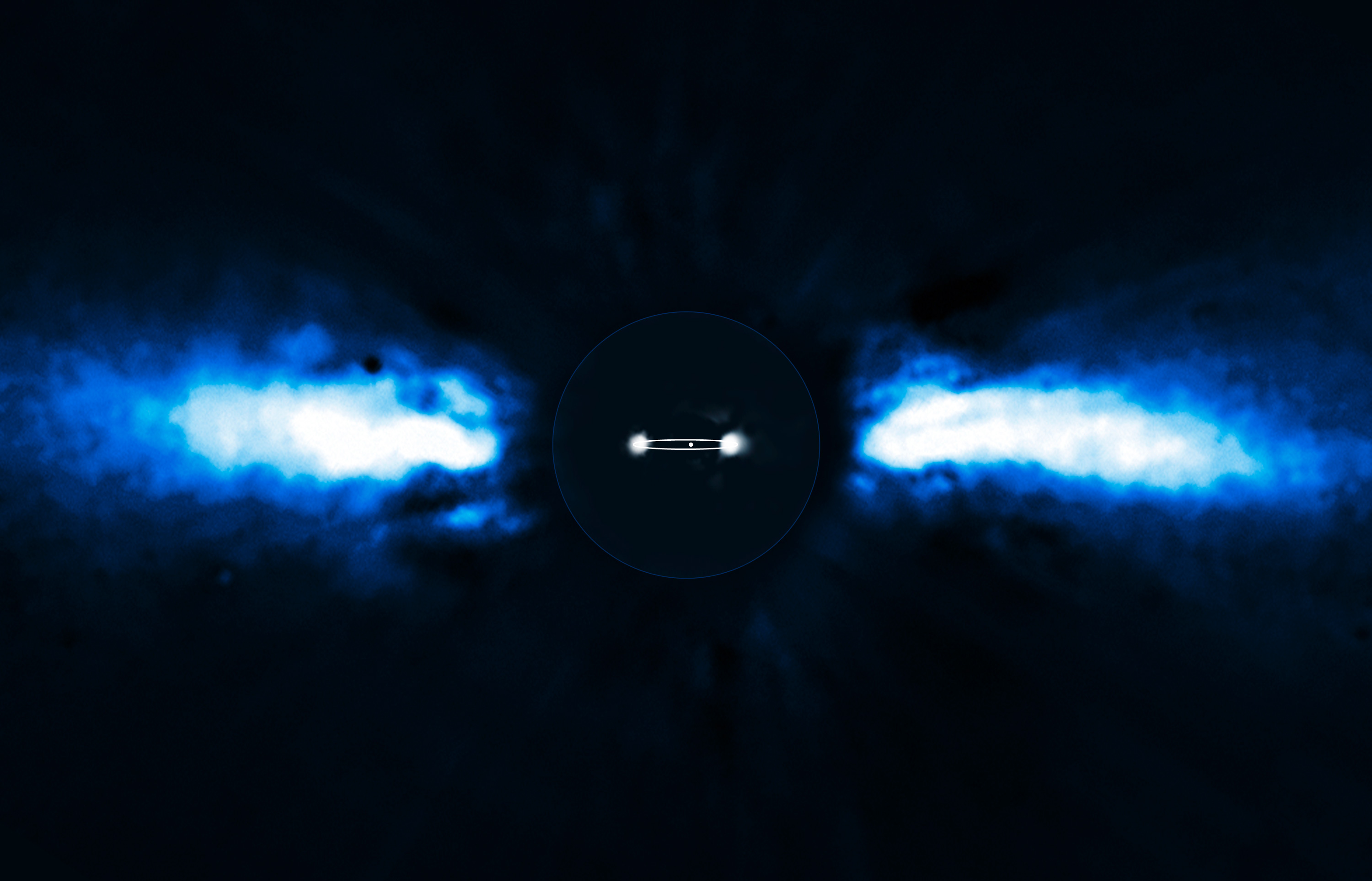 For the first time, astronomers have been able to directly follow the motion of an exoplanet as it moves to the other side of its host star. The planet has the smallest orbit so far of all directly imaged exoplanets, lying as close to its host star as Saturn is to the Sun. The team of astronomers used the NAOS-CONICA instrument (or NACO), mounted on one of the 8.2-metre Unit Telescopes of ESO's Very Large Telescope (VLT), to study the immediate surroundings of Beta Pictoris in 2003, 2008 and 2009. In 2003 a faint source inside the disc was seen, but it was not possible to exclude the remote possibility that it was a background star. In new images taken in 2008 and spring 2009 the source had disappeared! The most recent observations, taken during autumn 2009, revealed the object on the other side of the disc after having been hidden either behind or in front of the star. This confirmed that the source indeed was an exoplanet and that it was orbiting its host star. It also provided insights into the size of its orbit around the star. The above composite shows the reflected light on the dust disc in the outer part, as observed in 1996 with the ADONIS instrument on ESO's 3.6-metre telescope. In the central part, the observations of the planet obtained in 2003 and autumn 2009 with NACO are shown. The possible orbit of the planet is also indicated, albeit with the inclination angle exaggerated.